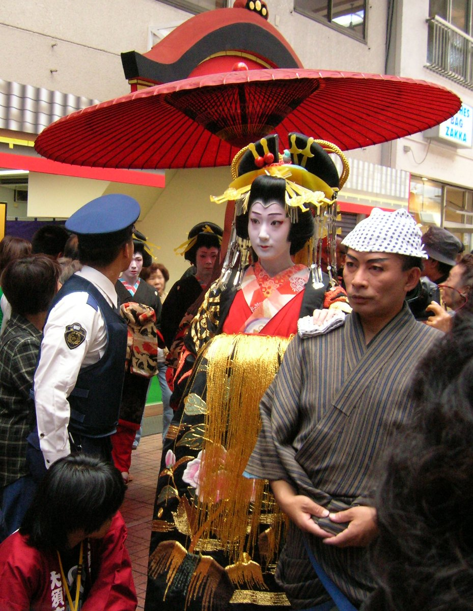 Oiran Dōchū. Loc: Ōsu Daidō-chōnin Matsuri, Naka-ku, Nagoya city, Aichi Prefecture, Japan. おいらん道中 撮影場所 愛知県名古屋市中区・大須大道町人祭